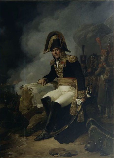 Title: "Le général Bernard-Georges-François Frère (1764-1826)". Napoleonic general of division Bernard-Georges-François Frère (1764-1826). The general is consulting a map of Poland and holds in his hand a letter signed Bernadotte, dated 1807.